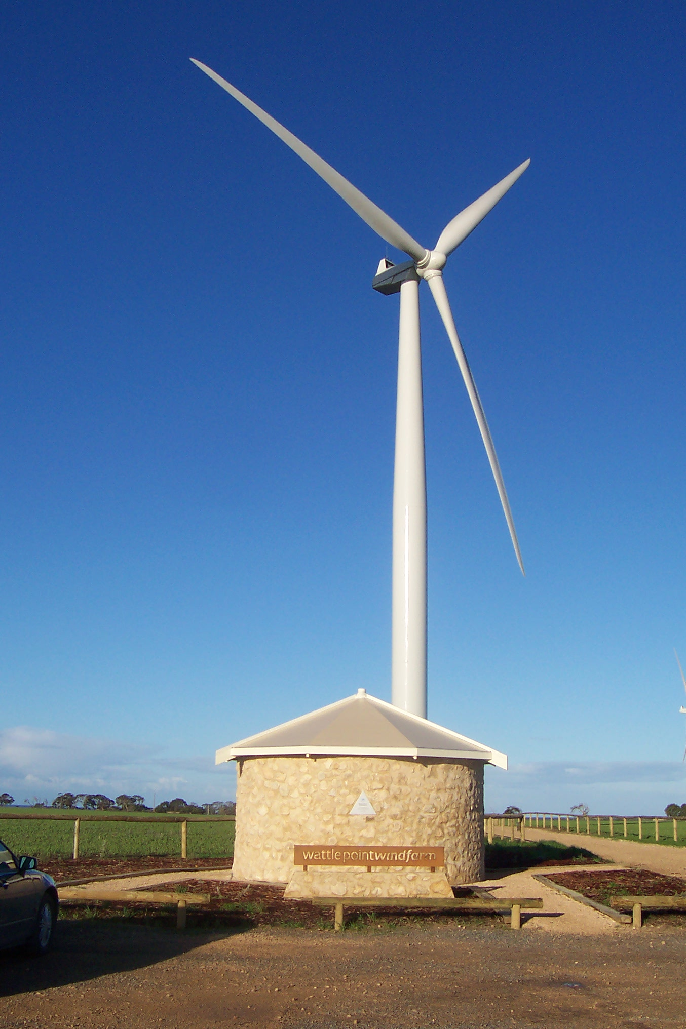 Wattle Point wind farm near Edithburgh Source: Photographer:Scott Davis